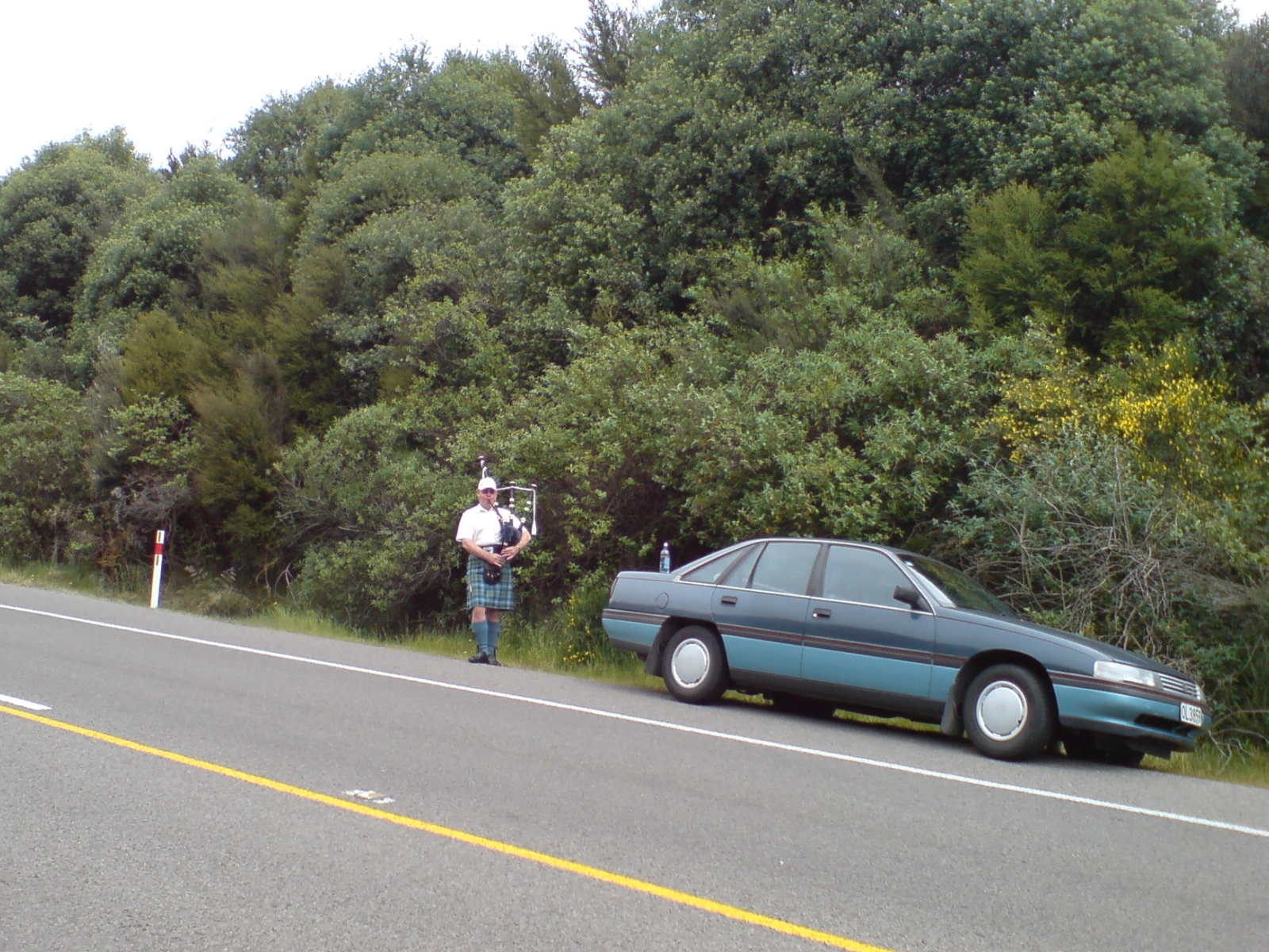 Lake Taupo Cycle Challenge 2007 - Saturday afternoon, taken at Hatepe Hill, a steep 150m climb near the end of the race (at around 140 of 160km). A bagpiper near the end of the climb plays for the riders struggling (or in many cases walking) up the hill. Hatepe Hill, Lake Taupo, New Zealand.